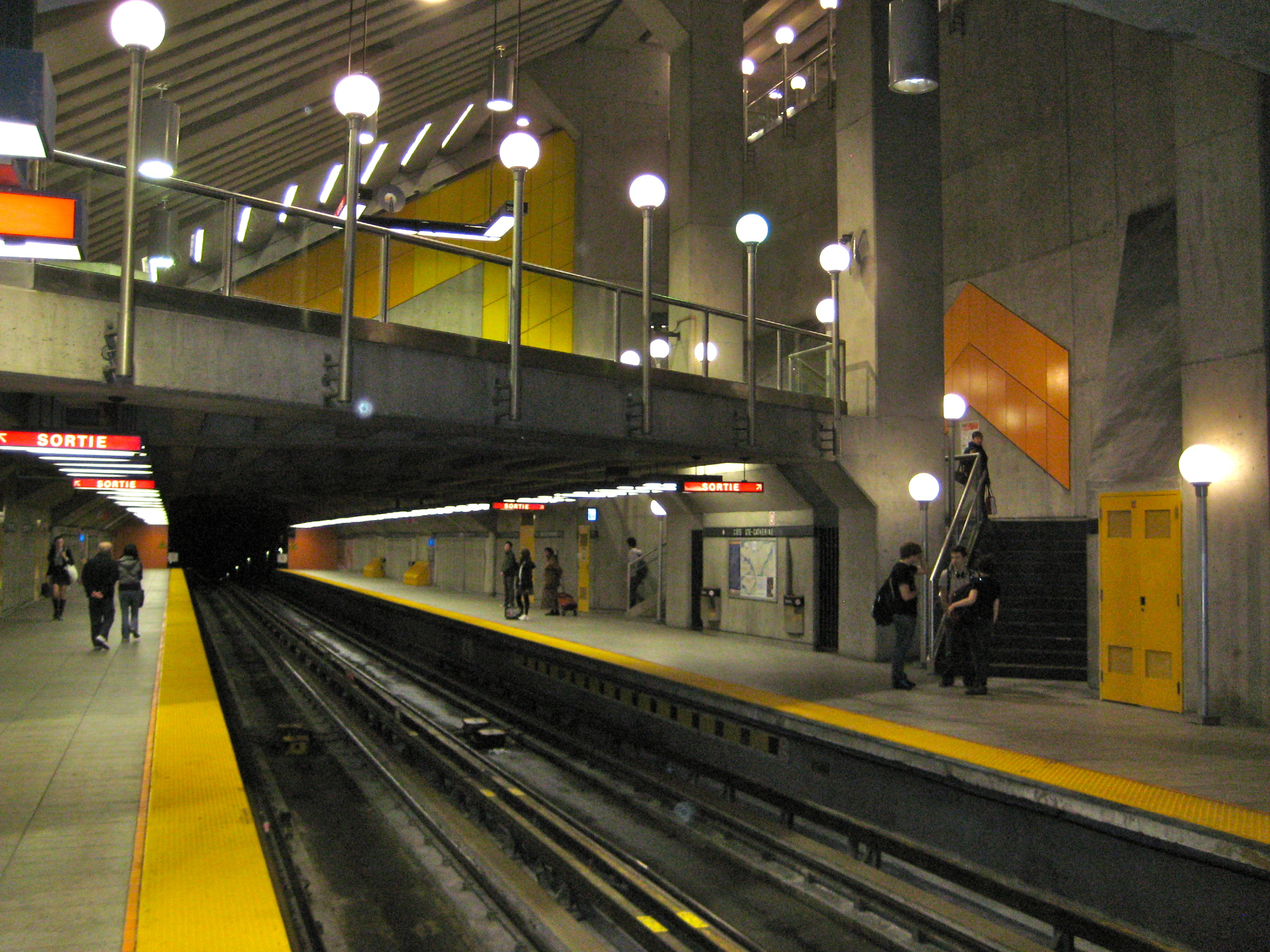 Côte-Sainte-Catherine Metro station platform